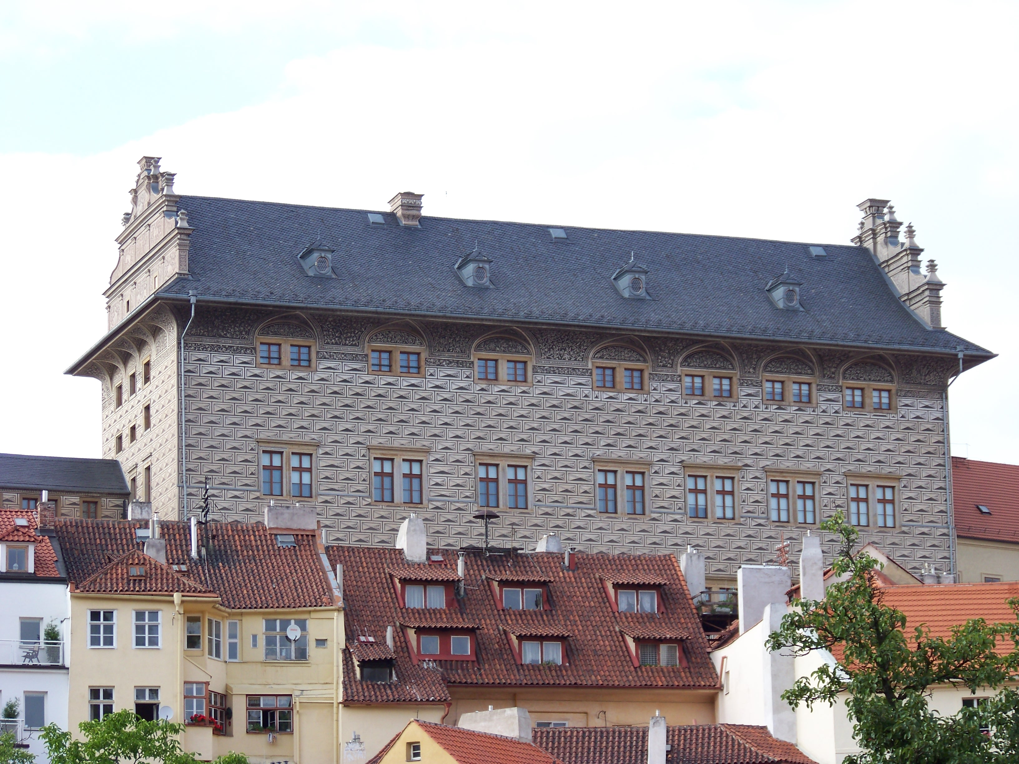 Prague-Hradčany, the Czech Republic. Schwarzenberg Palace, from the court of the hospital in Vlašská street.